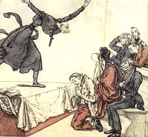 A Zealot's Sermon anticlerical caricature design for a handkerchief